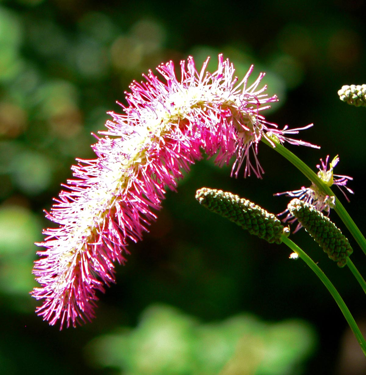 Photo of Sanguisorba obtusa at VanDusen Botanical Garden